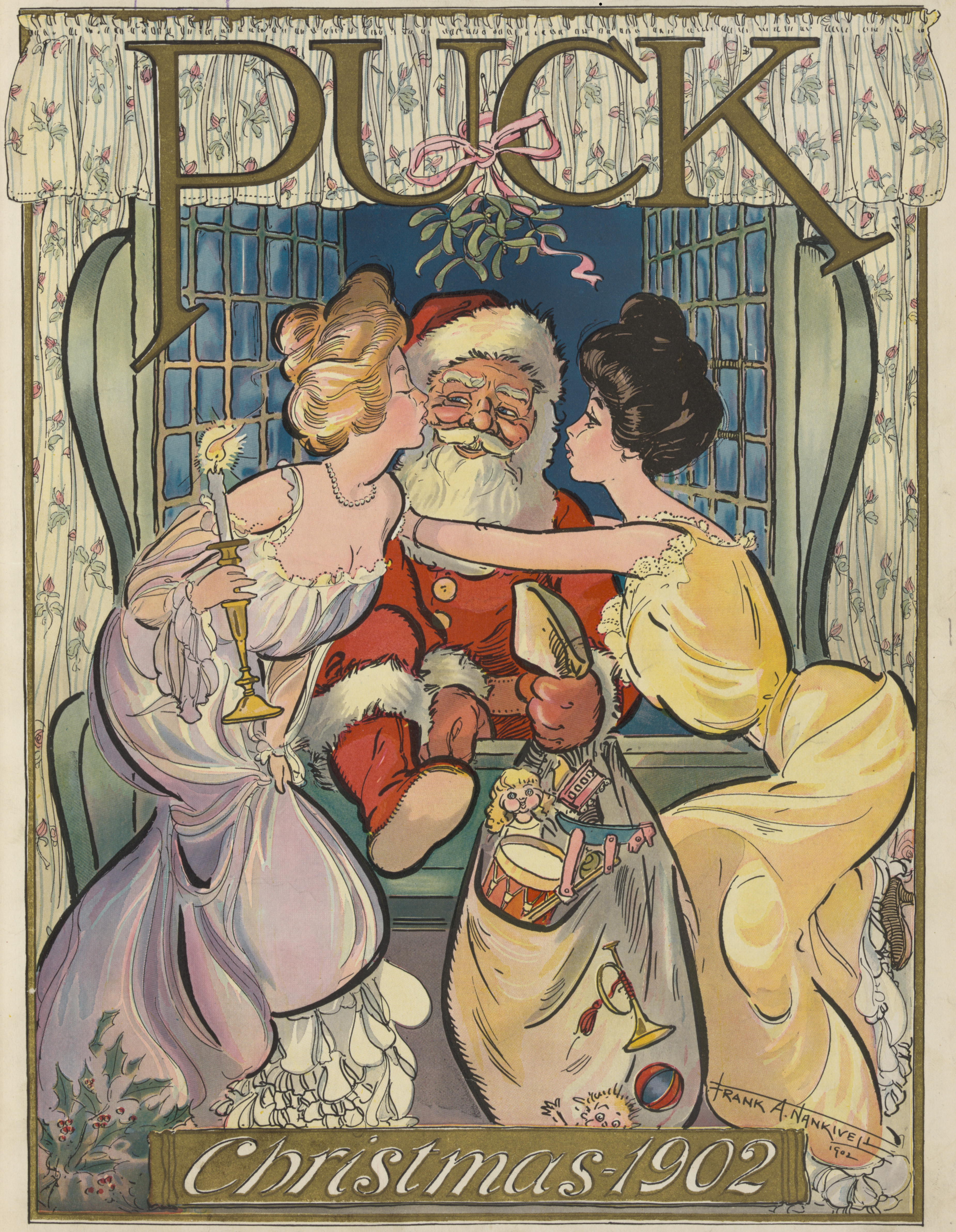 Santa Claus as illustrated in Puck (magazine), v. 52, no. 1344 (December 3 1902), cover.